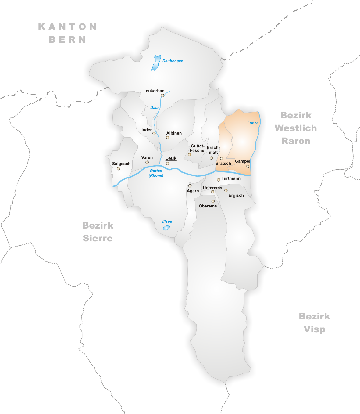 Municipalities of District Leuk until 2008